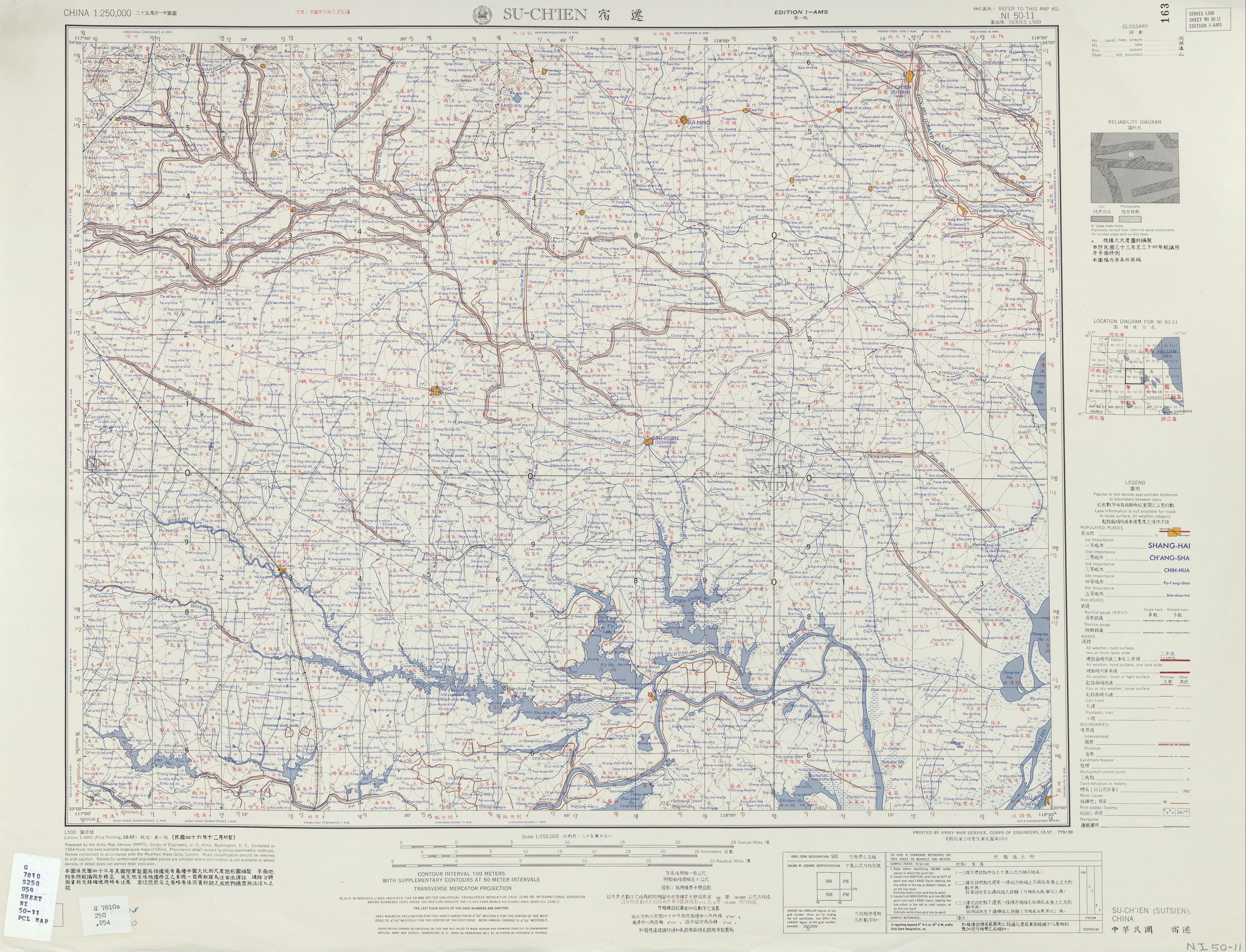 China AMS Topographic Maps